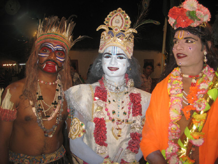 Behrupiya or Impressionist is a folk art of Bangladesh, India, Nepal and Pakistan.